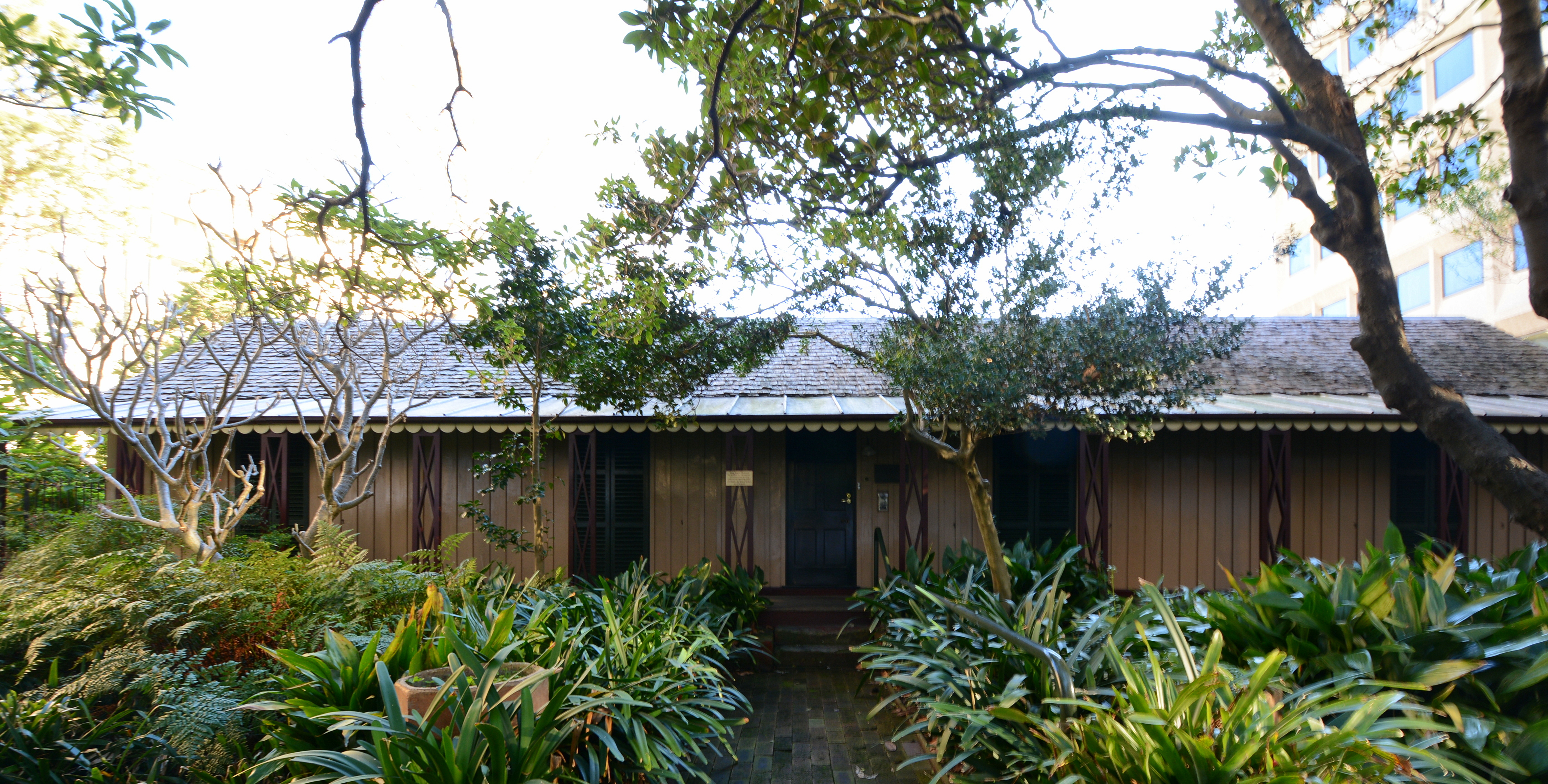 Don Banks Museum, North Sydney, Sydney